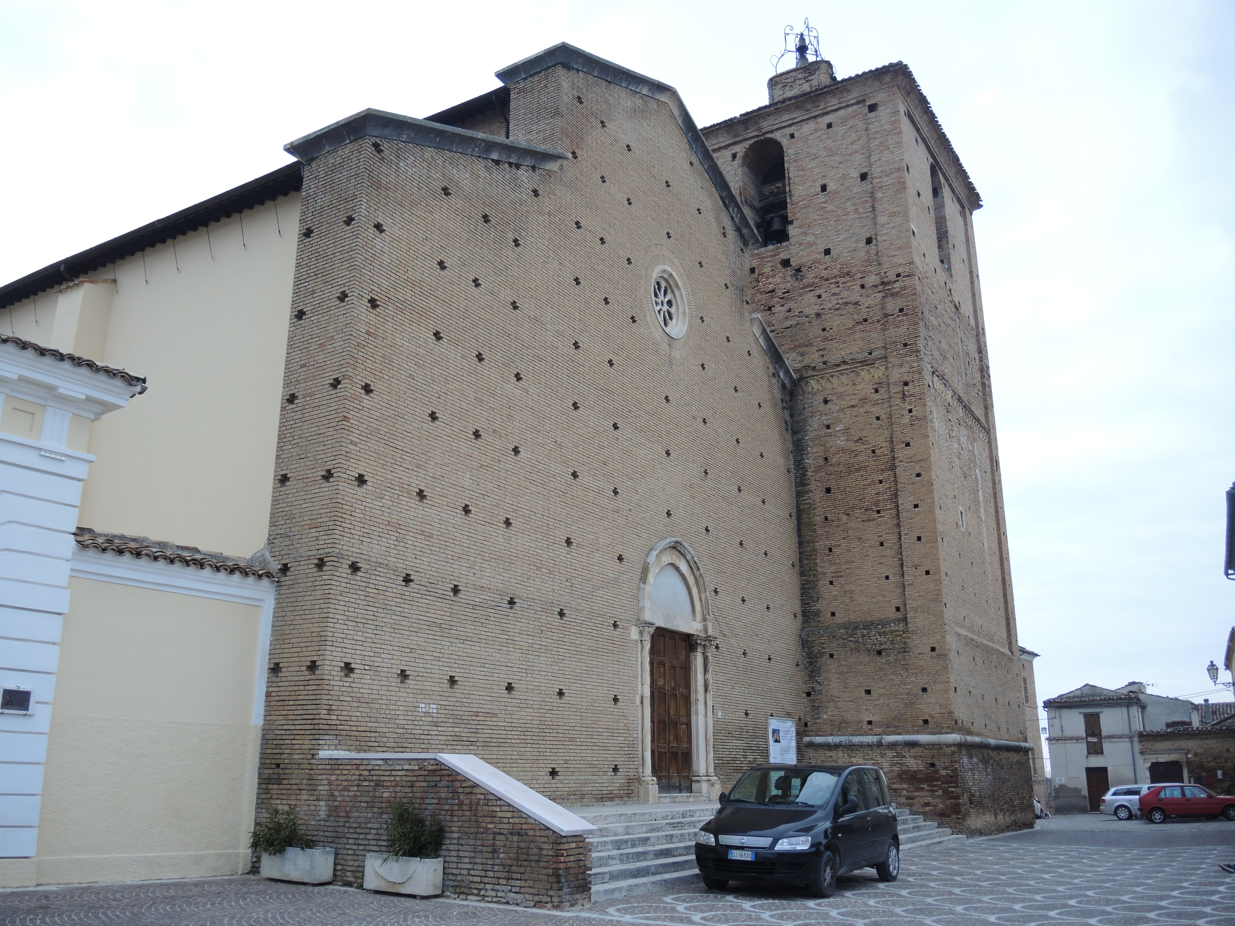 Penne: Duomo di San Massimo